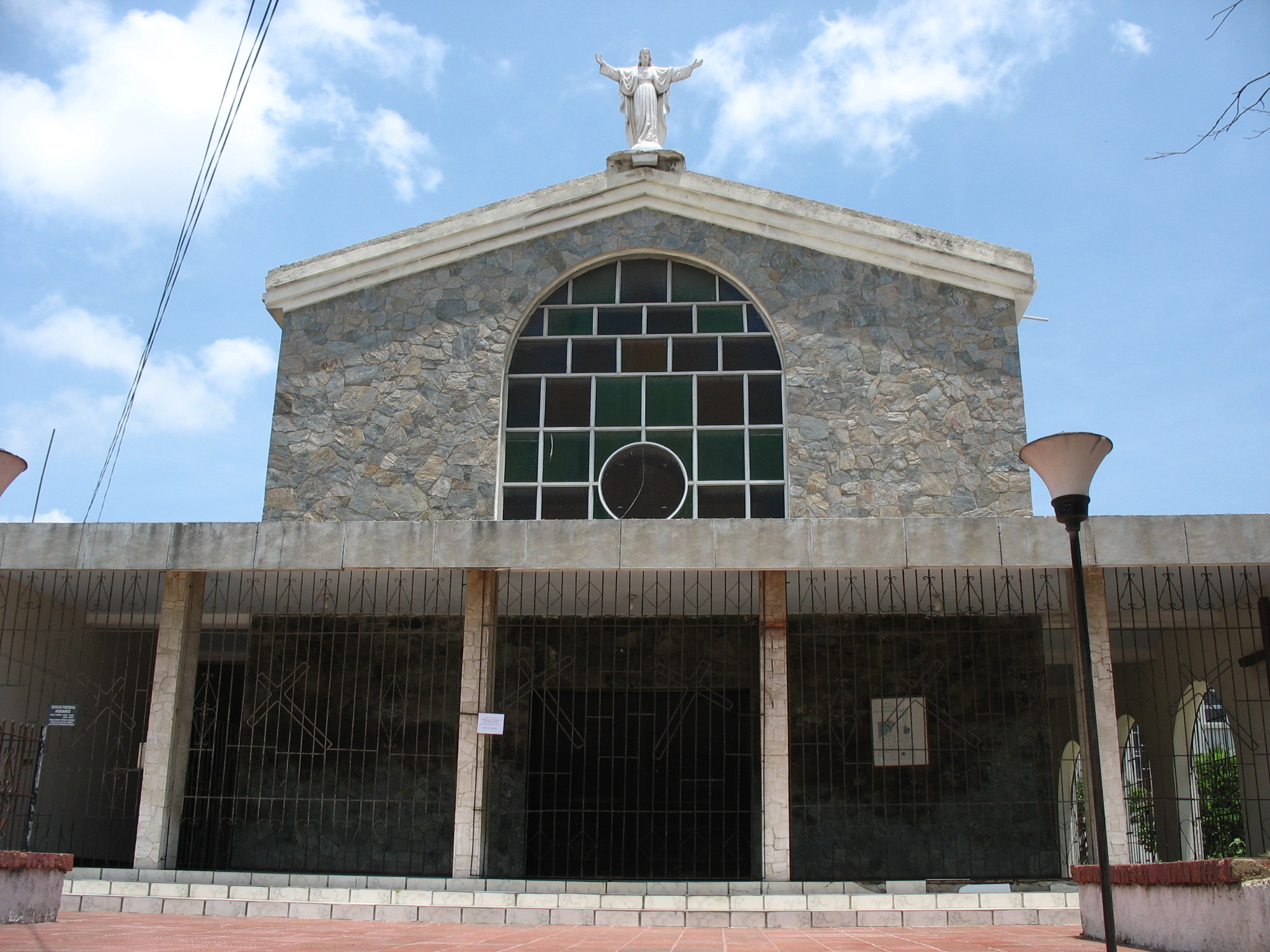 Barranquilla - Saint Louis Bertrand Church